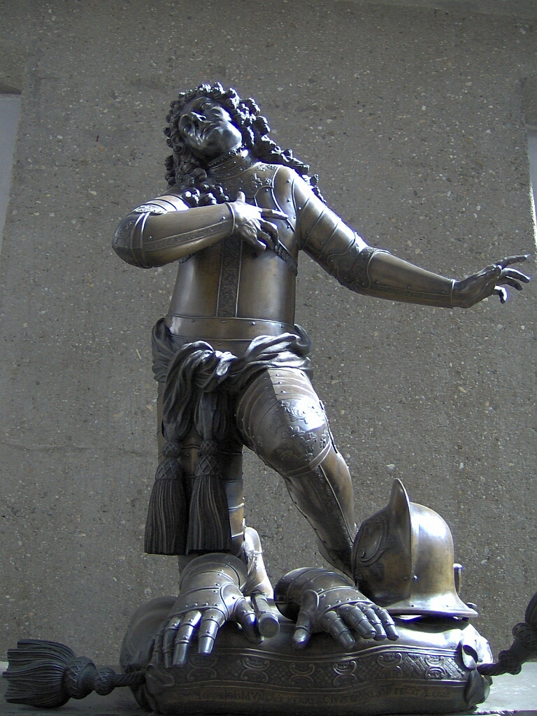 Bust of Louis Raduit de Souches, the defender of Brno